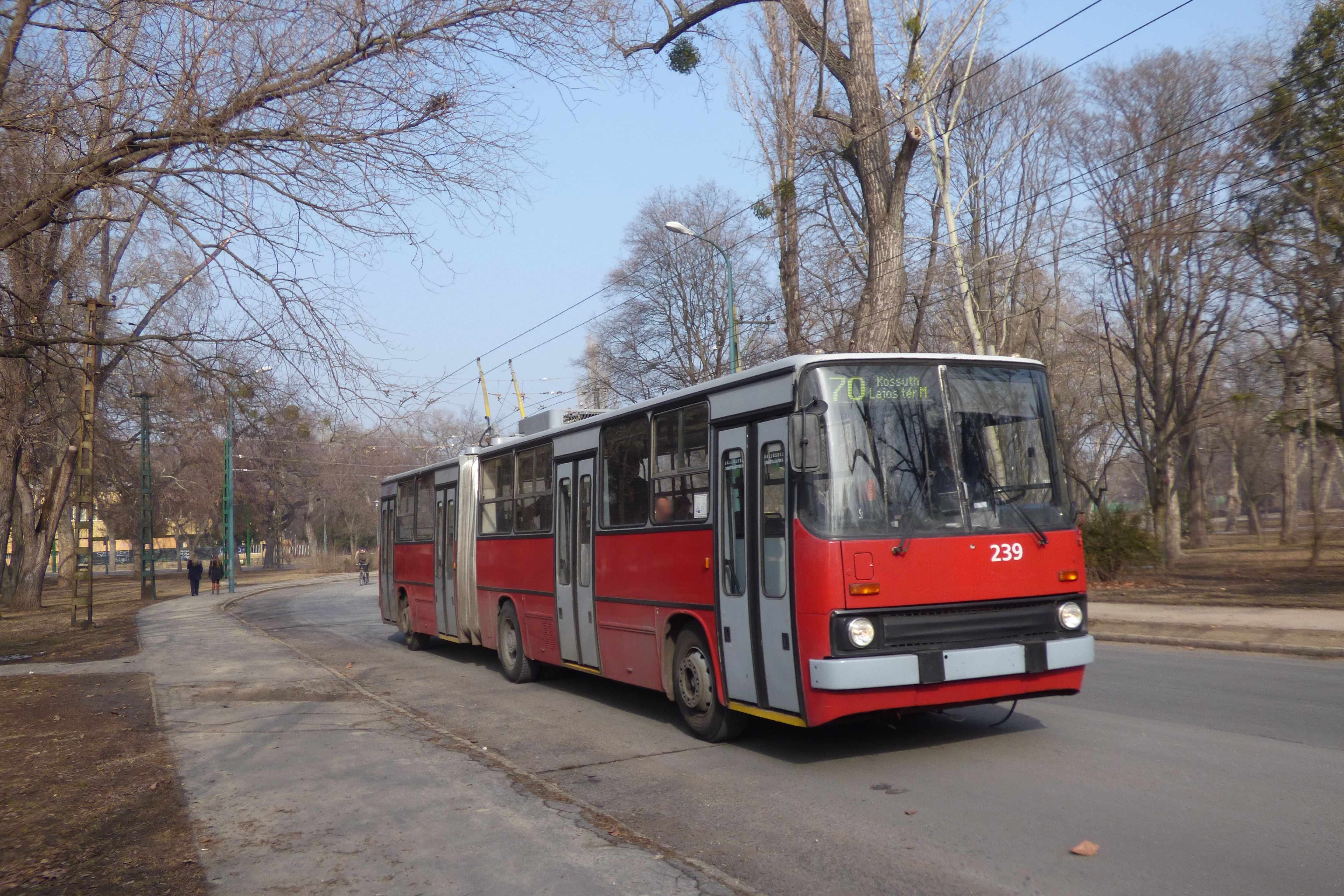 Ikarus-GVM 280.94 (cn. 239), trolleybus no. 70, Budapest, City Park